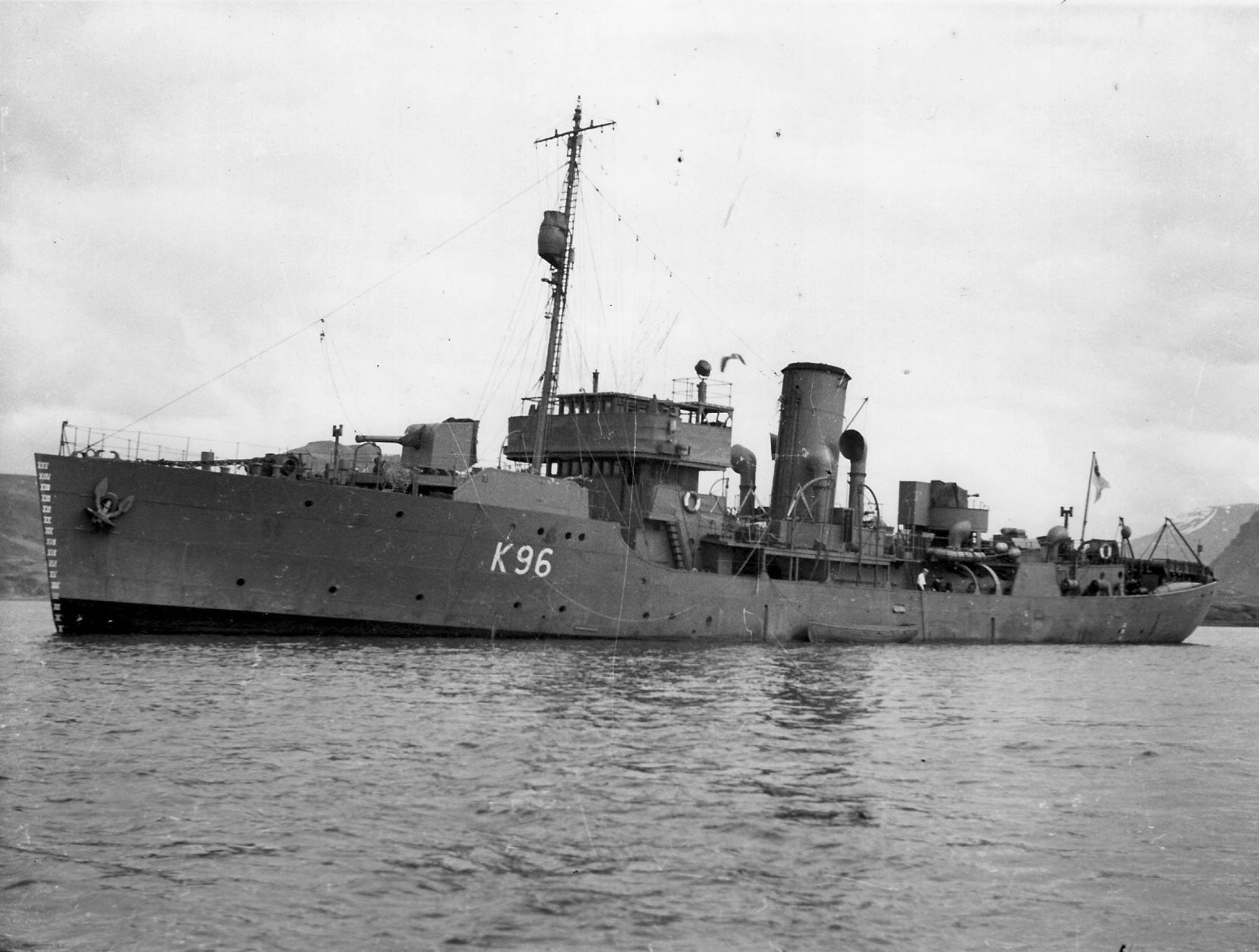 This photograph shows Aubrietia, a flower-class corvette, fitted with depth charges. The photograph was taken in 1941 during her service as a convoy escort in the 3rd Escort Group. It was during this period that she depth charged the german submarine U-110, resulting its capture, together with its intact enigma machine and codebooks.